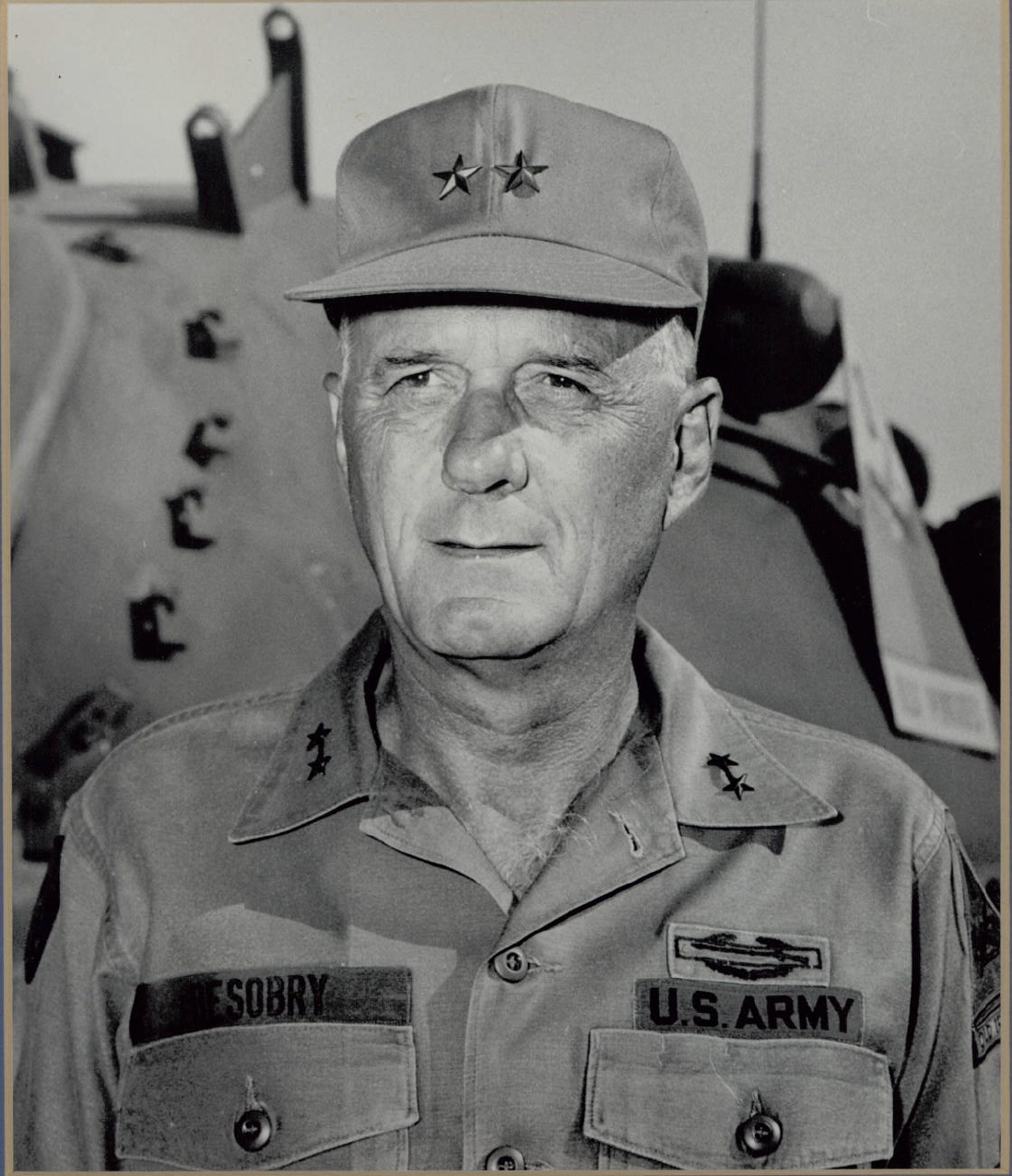 Change of command photo in fatigue style uniform taken in front of a tank near the headquarters building